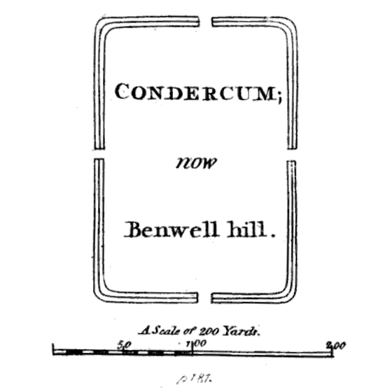 "CONDERCUM; now Benwell hill". Engraving from page 181 of The History of the Roman Wall by William Hutton. Printed by John Nichols and Son, London, 1802.